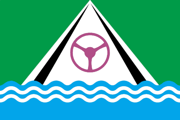 Flag of Handyga, Yakutia, Russia